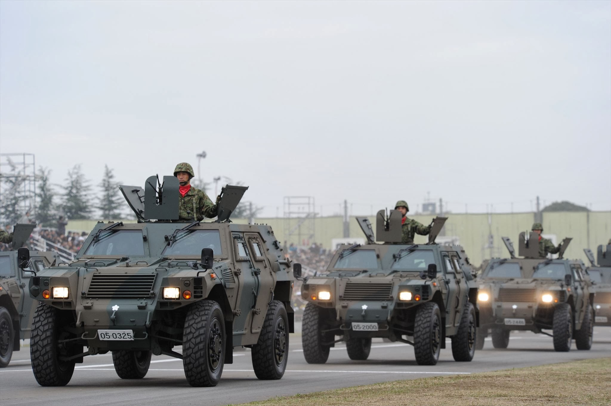 Title 13_01_018_R.JPG Album 自衛隊記念日 観閲式(Parade of Self-Defense Force) 平成22年度自衛隊記念日 観閲式(Parade of Self-Defense Force)